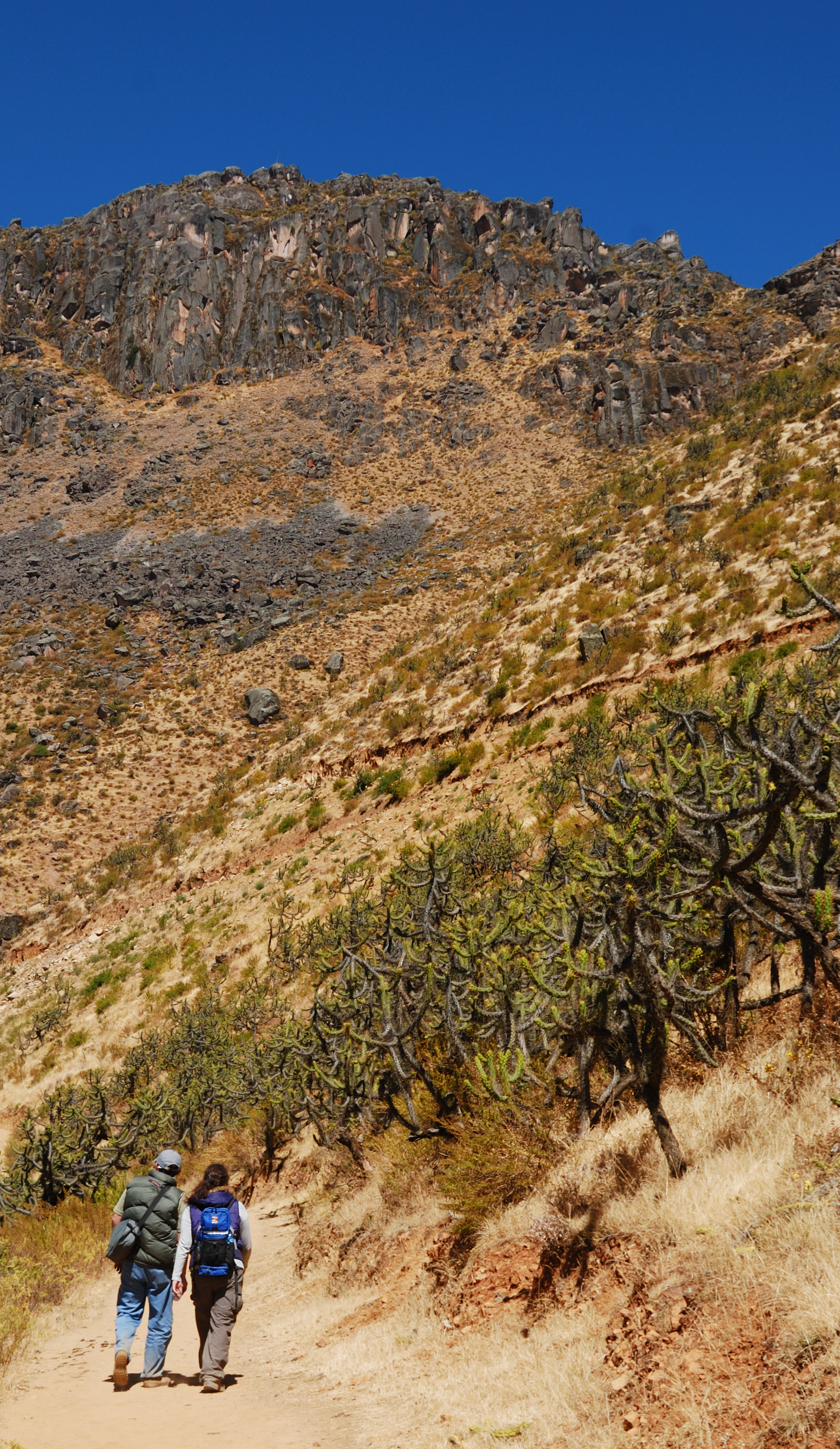 Marcahuasi